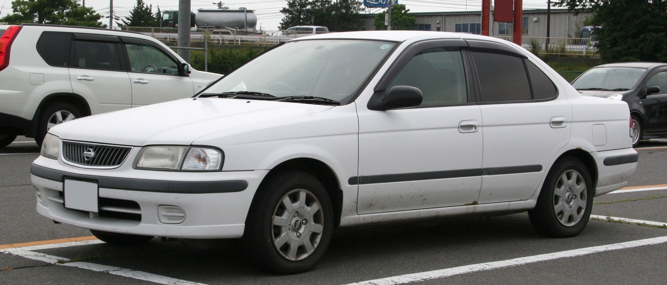 NISSAN Sunny